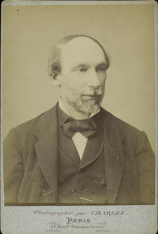 Auguste Vacquerie portrait